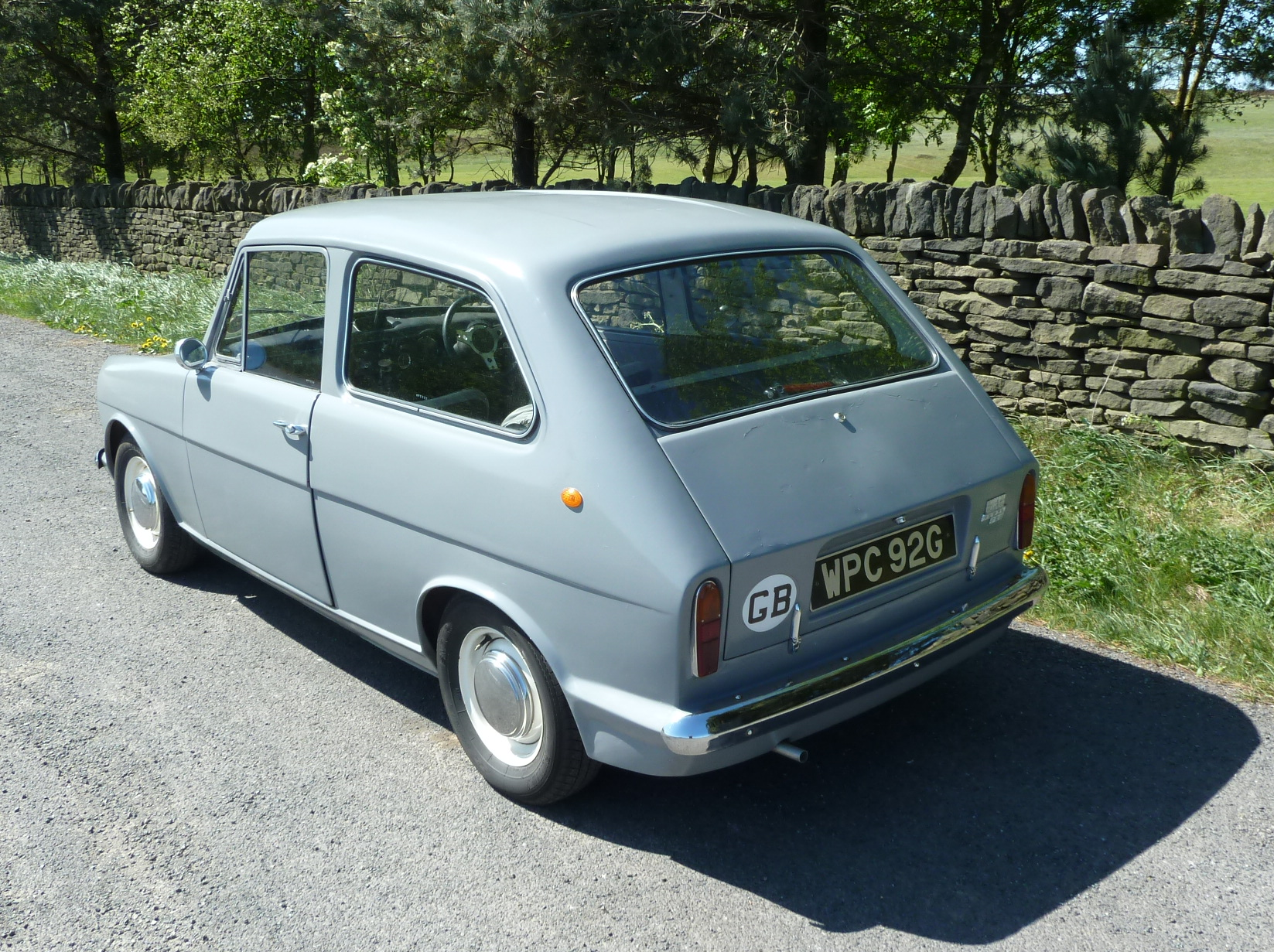 1969 Reliant Rebel 700 (DVLA) first registered 3 January 1969, 850cc Crosland Moor, Huddersfield